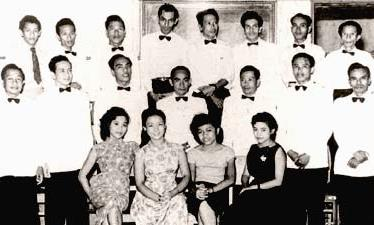 Orkes Melayu Kenangan lead by Husein Aidid